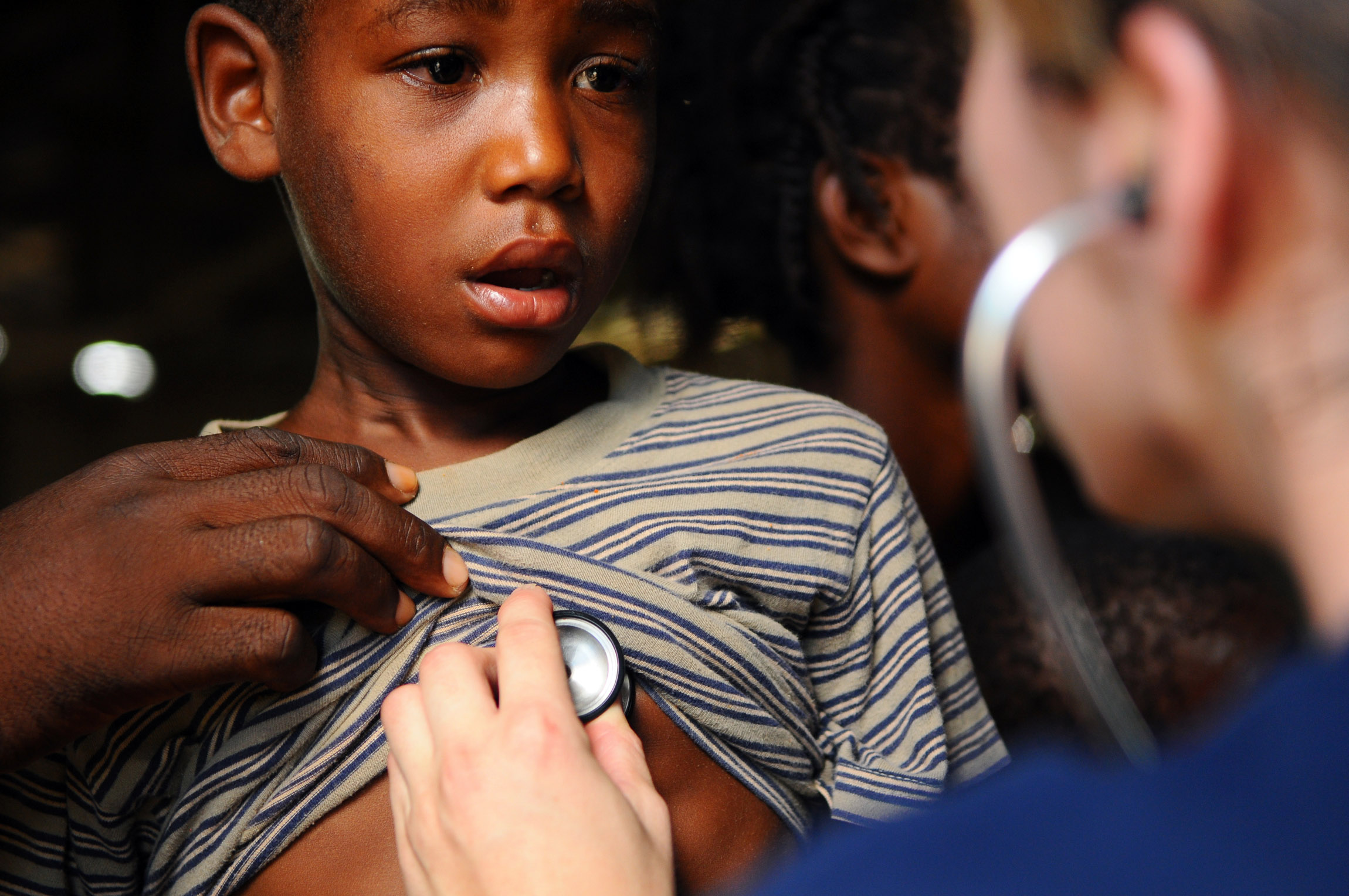 Jolene Cook, a Canadian Air Force medical augmentee embarked aboard the amphibious assault ship USS Kearsarge, listens to the lungs and heartbeat of an ill child during a medical civic action project in Marose, Haiti